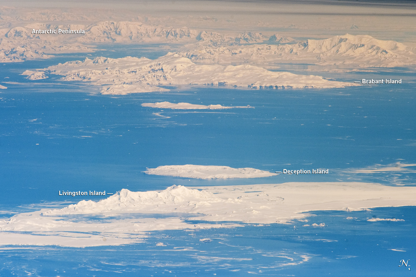 South Shetland Islands and Antarctica: detailed oblique image from the ISS.